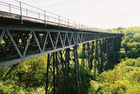 Meldon Viaduct. formerly part of the old railway passing the NW corner of Dartmoor to Tavistock. The functioning railway now stops at Meldon Quarry and this viaduct now carries a cycle track leading to Lydford.